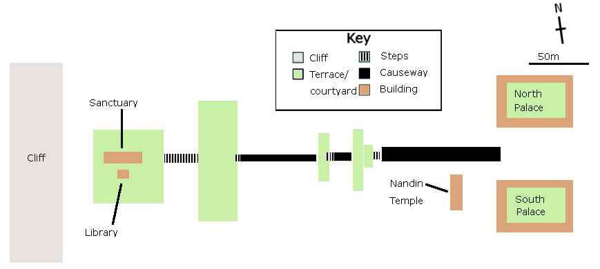 The approximate proportions are from Projet de Recherches en Archaeologie Lao's pamphlet Vat Phu: The Ancient City, The Sanctuary, The Spring. Mark1 15:41, 22 December 2005 (UTC)